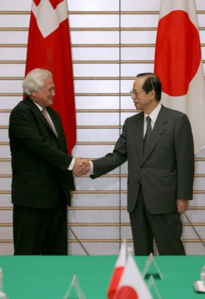 Feleti Sevele, Prime Minister, met Yasuo Fukuda, Prime Minister, at the Prime Minister's Official Residence in Chiyoda Ward, Tōkyō Metropolis on March 27, 2008.